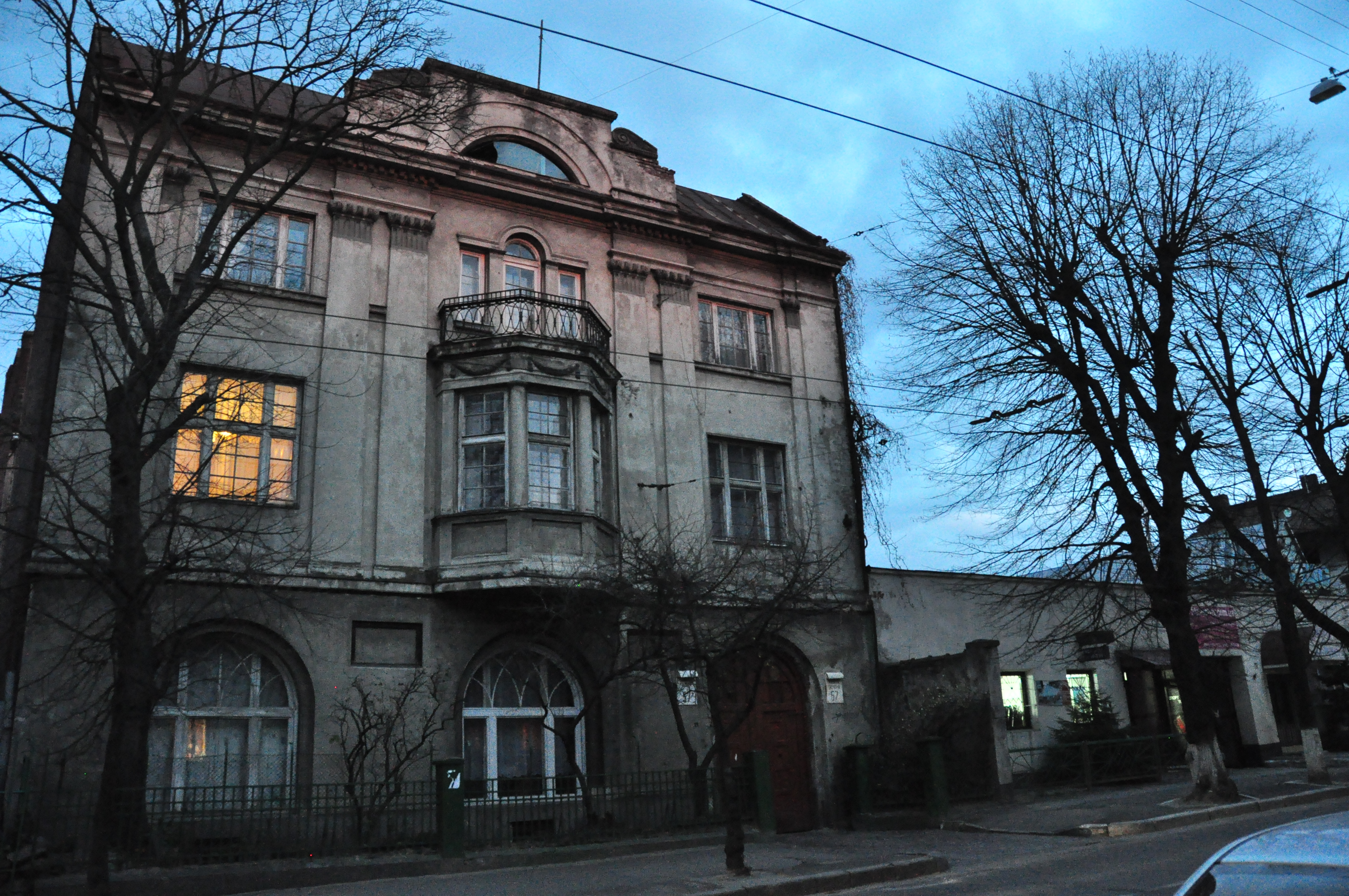 53 Zelena St. in Lviv at night